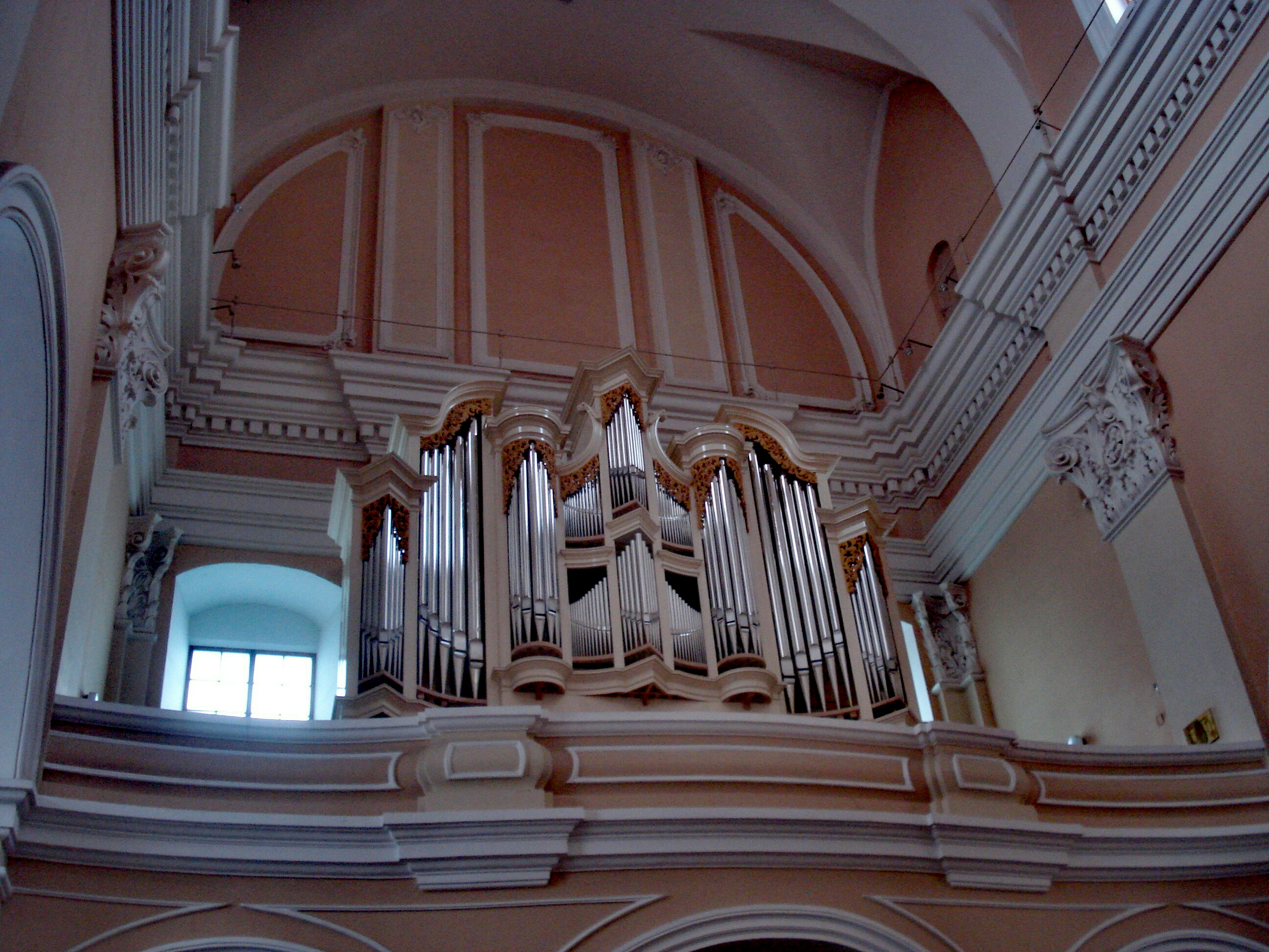 Organ in the Church of St. Casimir (Šv. Kazimiero bažnyčia) in Vilnius (Didžioji g. 34)